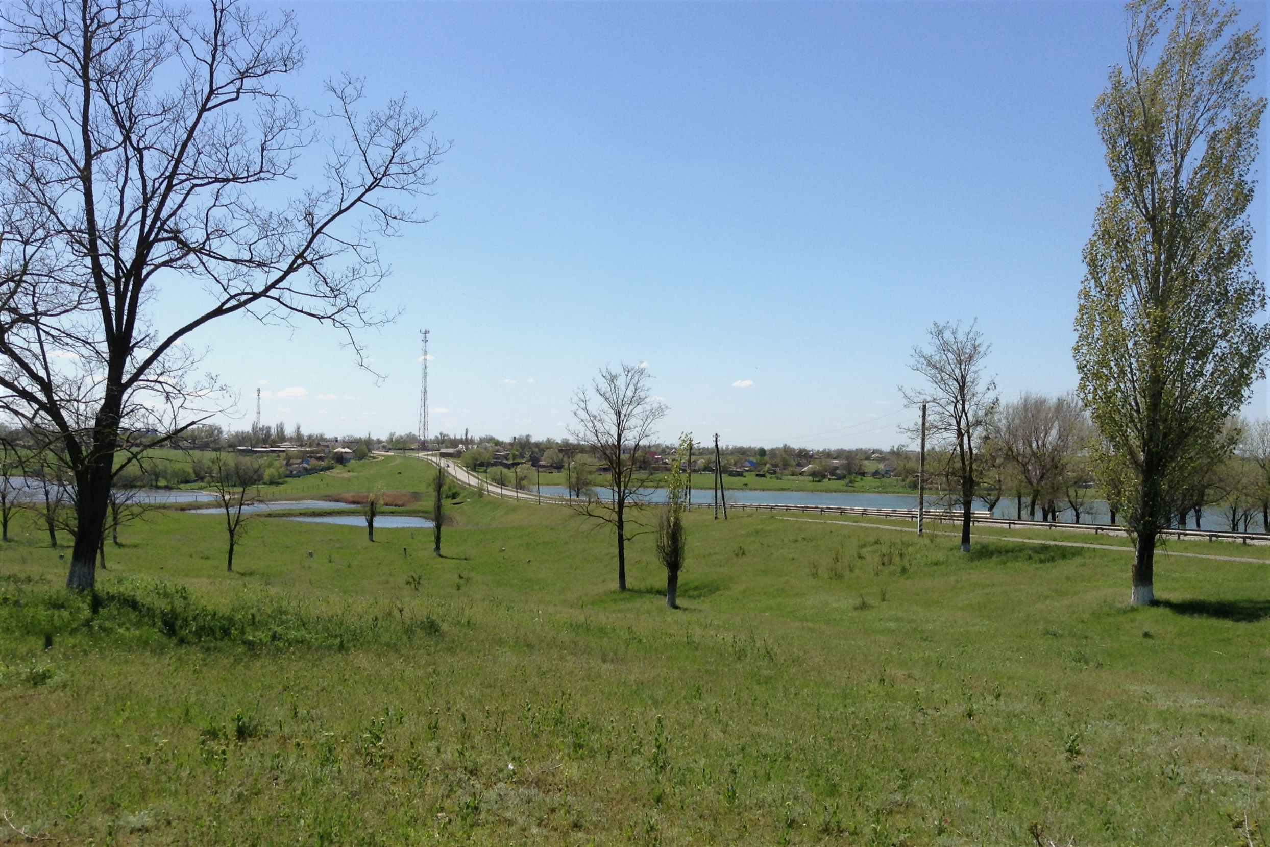 Ponds on the Bolshaya Sandata River in Sandata village, Rostov-on-Don reigon, Russia